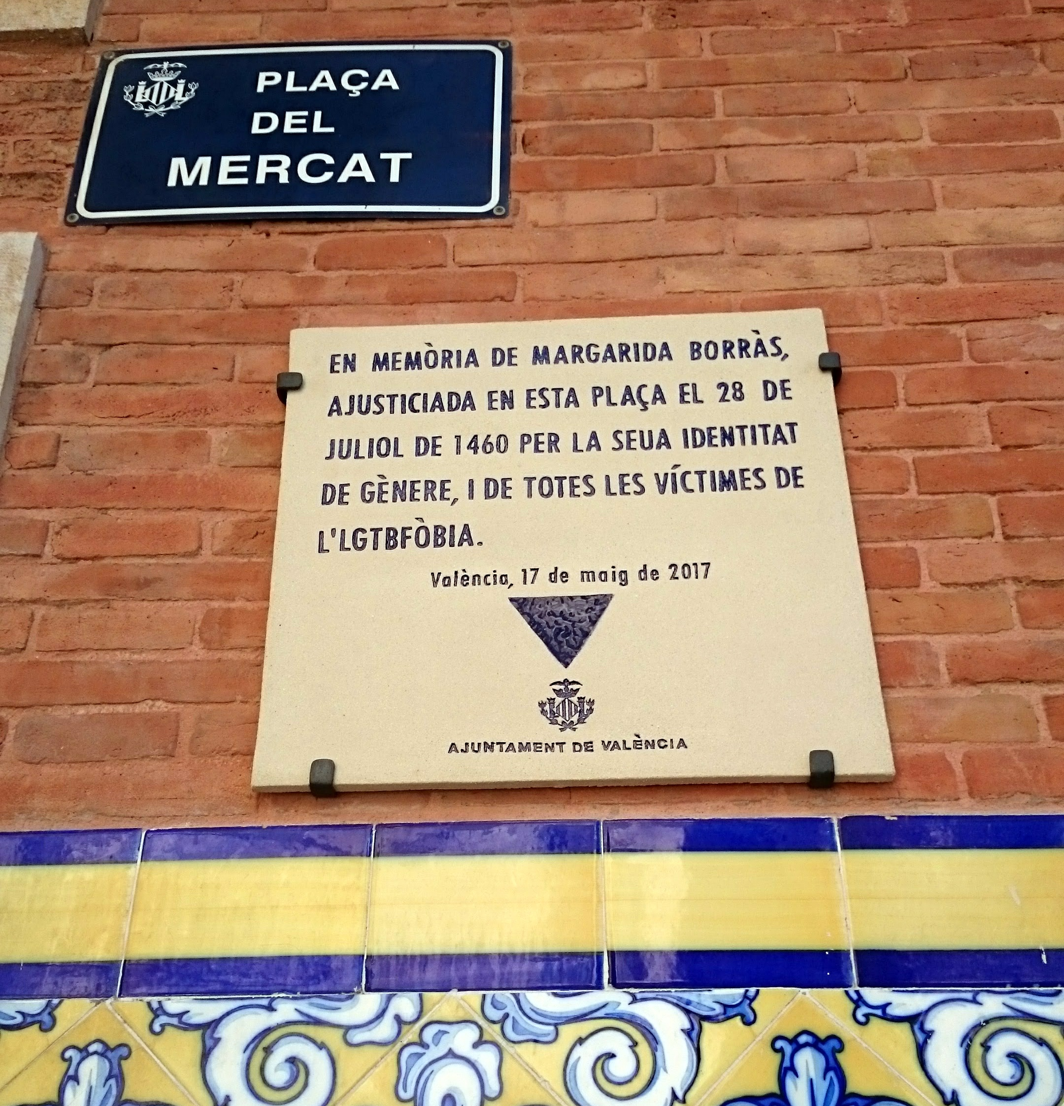 Plaque tribute to Margarita Borràs in the Mercat square in Valencia